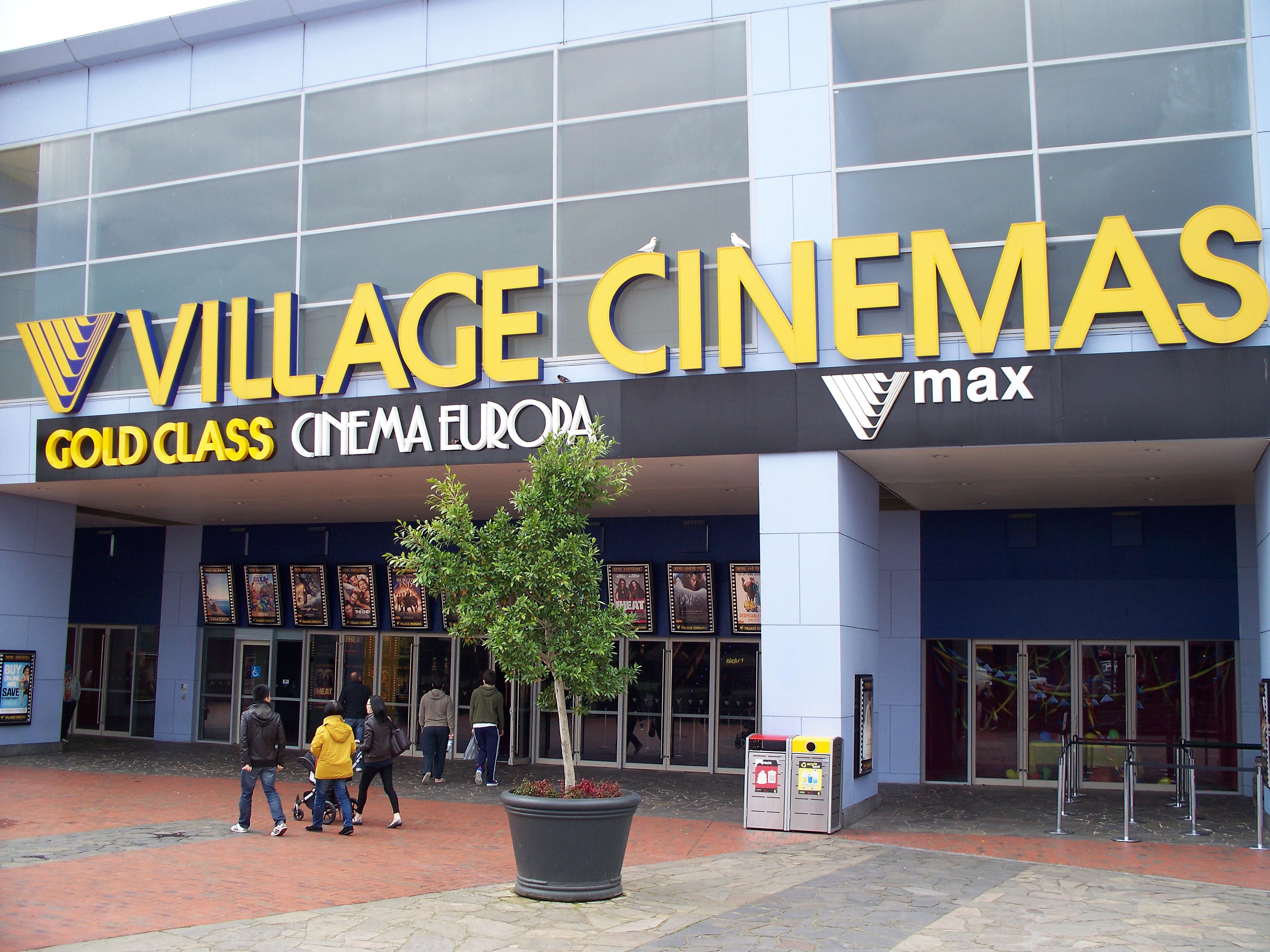 A fifteen-screen, free standing Village Cinema within Knox O-Zone, Wantirna South, a eastern suburb of Melbourne.